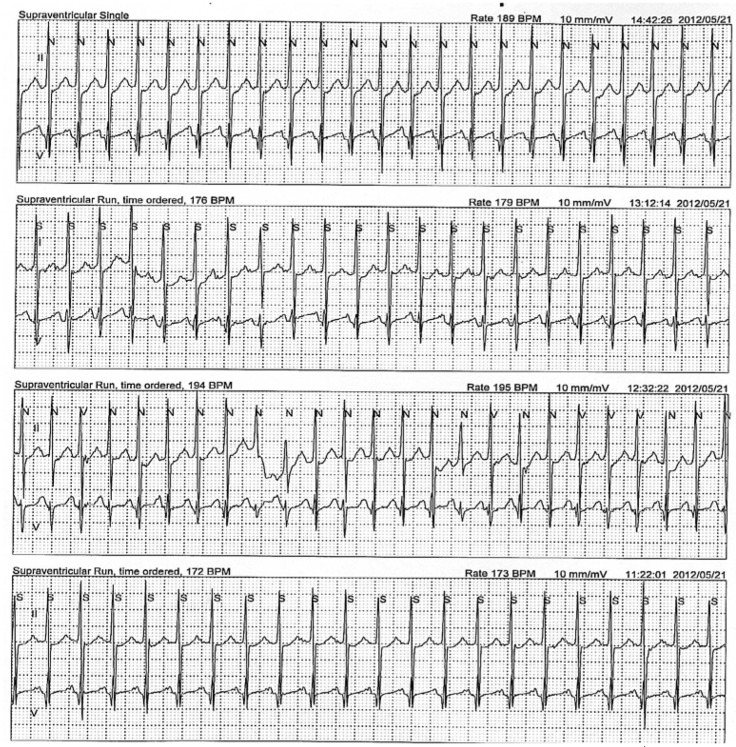 This patient's holter monitor shows atrial tachycardia. The patient was eventually diagnosed with tachycardia-induced cardiomyopathy.